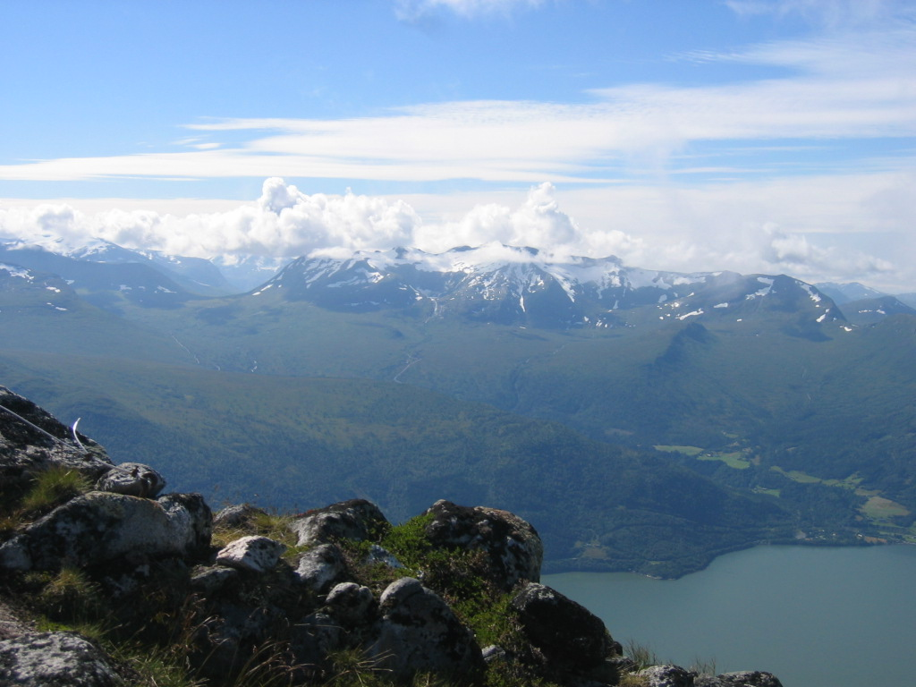 Picture of Jordalsgrenda, Møre og Romsdal, Norway. A small place Photographer: M. Lervik